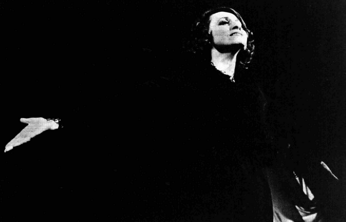 Italian singer Milly (Carla Mignone)